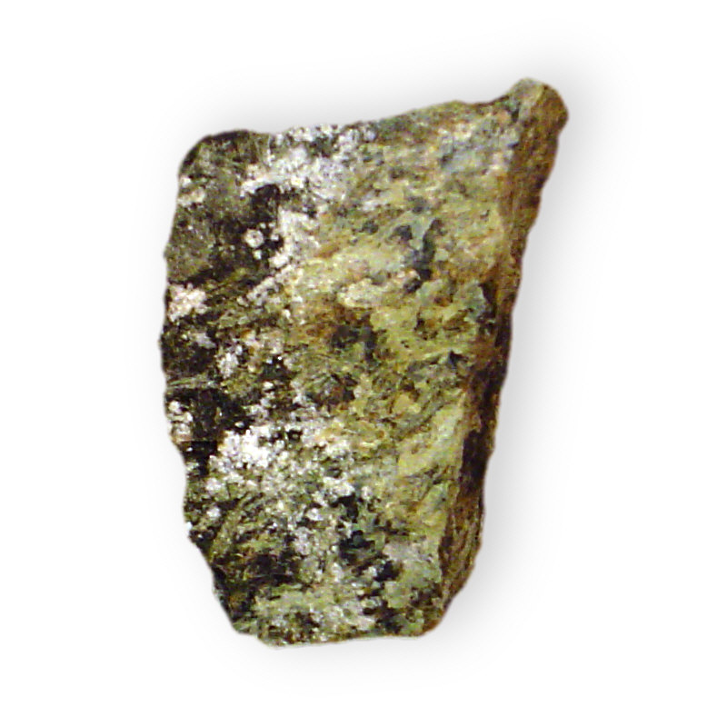 These mineral images are free to use how you wish.